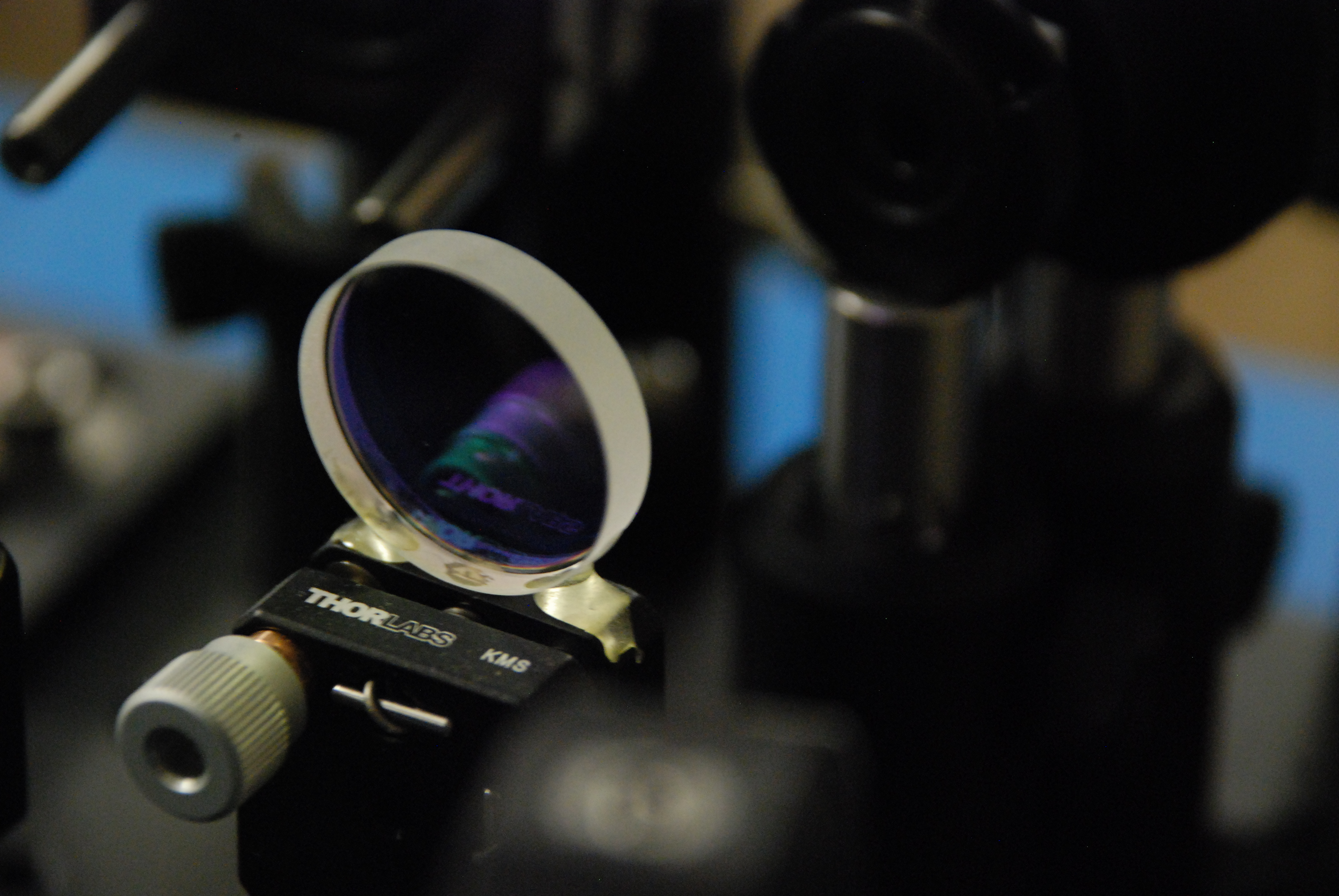 Dichroïc mirror used in 2014 at JQI, UMD.